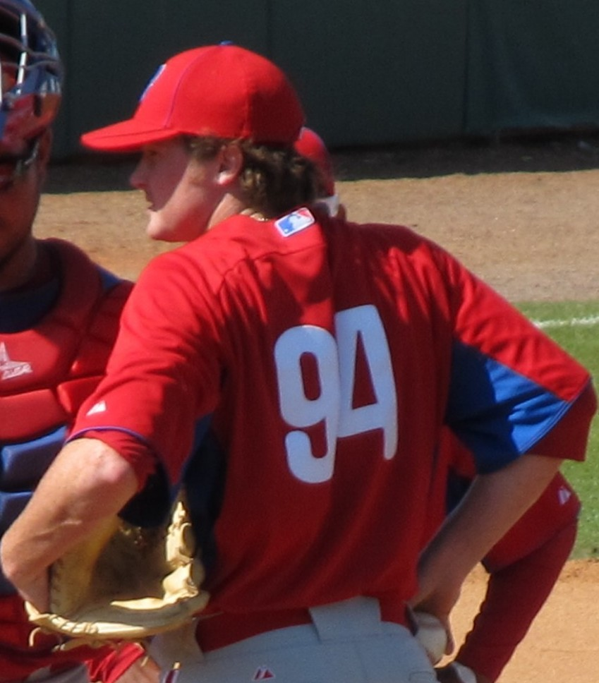 Dane Sardinha with Tyson Brummett in 2011 Phillies spring training